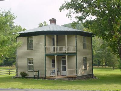 Octagon House (c. 1890) on Capon Springs Road (County Route 16) in Capon Springs